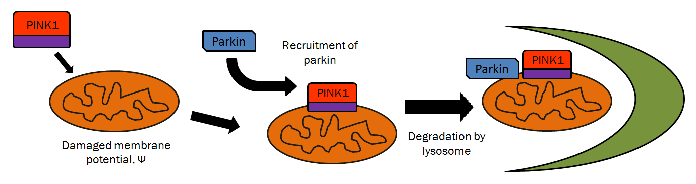 Degradation of damaged mitochondria targeted by PINK1 and parkin